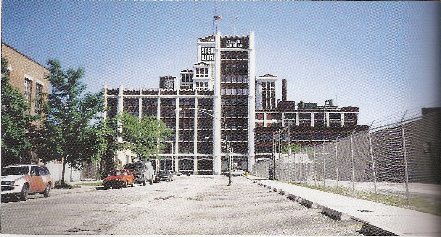 picture of former Stewart-Warner factory and headquarters in Chicago, IL, from 1990. Other information It's my photo and anyone interested in Stewart-Warner can use it.